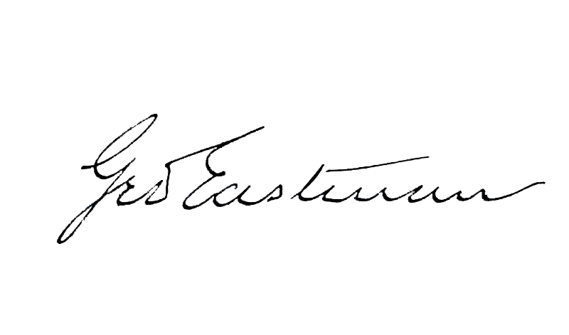 George Eastman's Signature